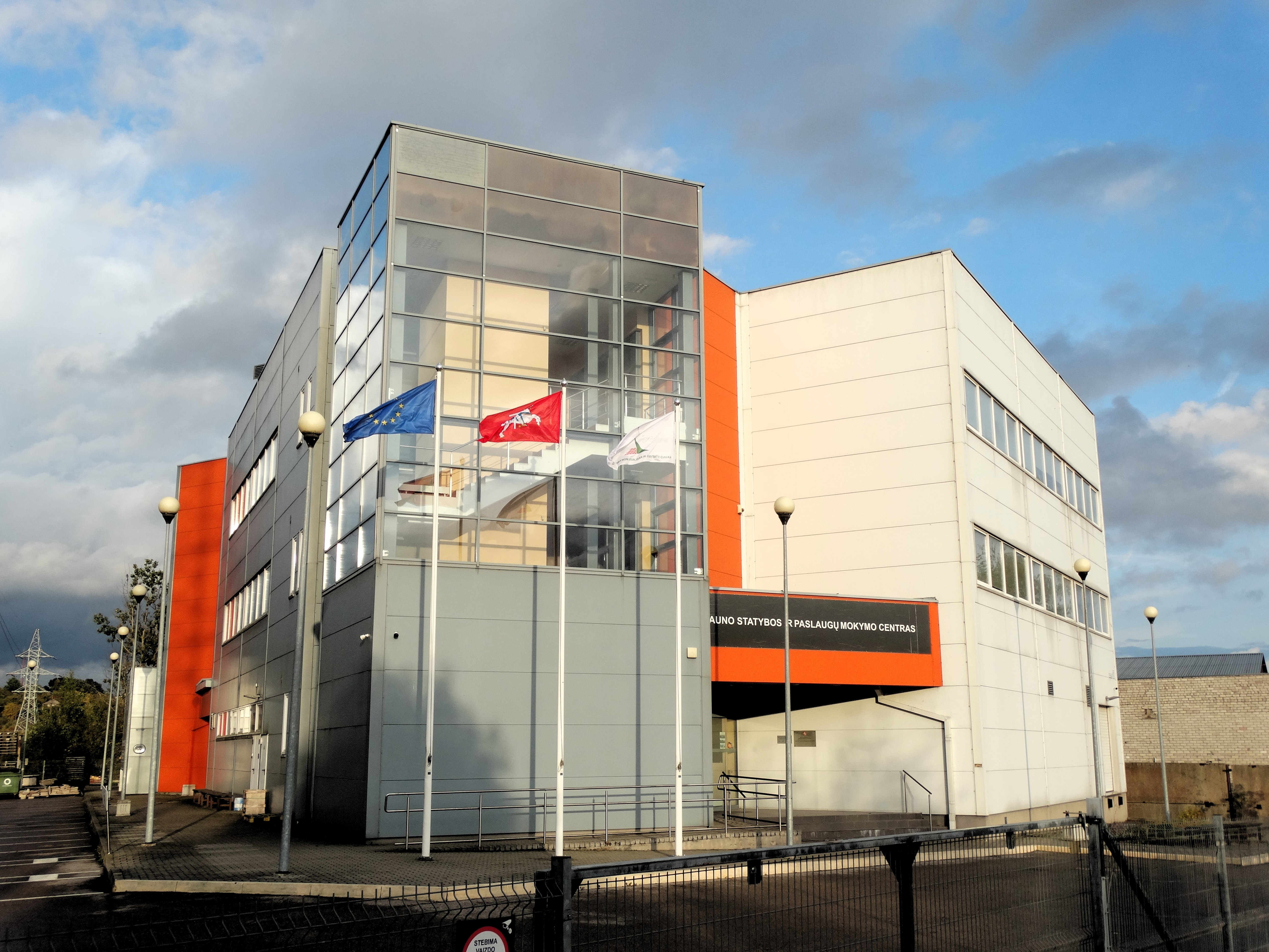 Construction and Services Training Centre, Kaunas, Lithuania